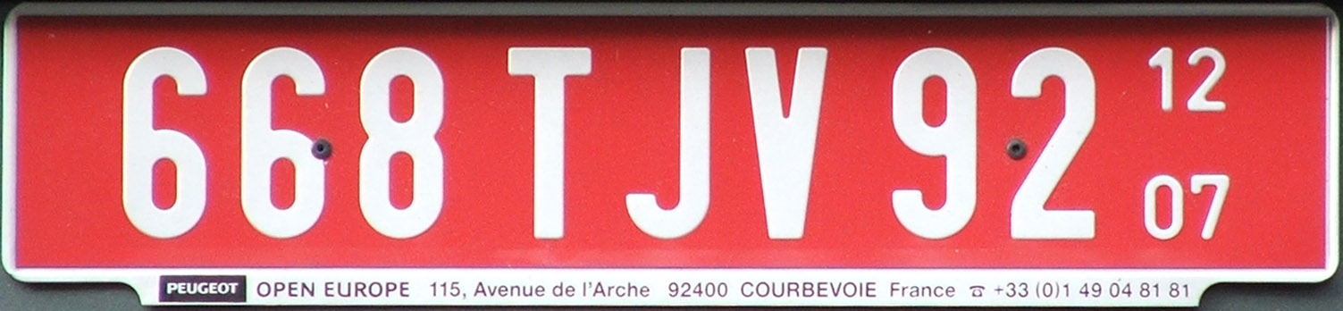 Temporary car registration of foreign resident in France